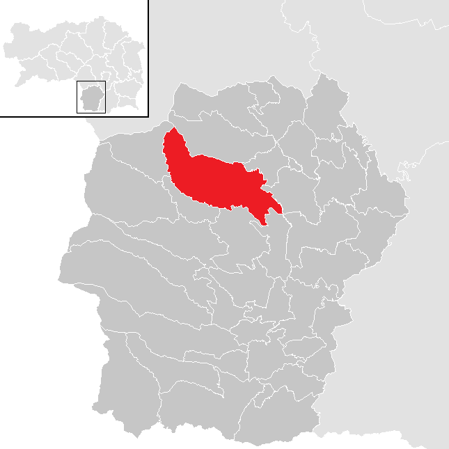 District Deutschlandsberg, Styria, Austria